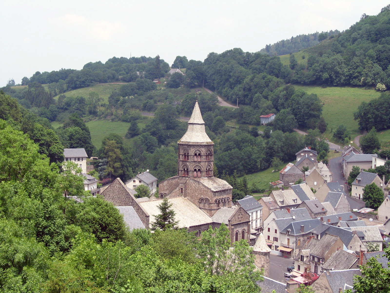 Orcival (France), the village and the romanesque basilica of Our-Lady (XIIth century).